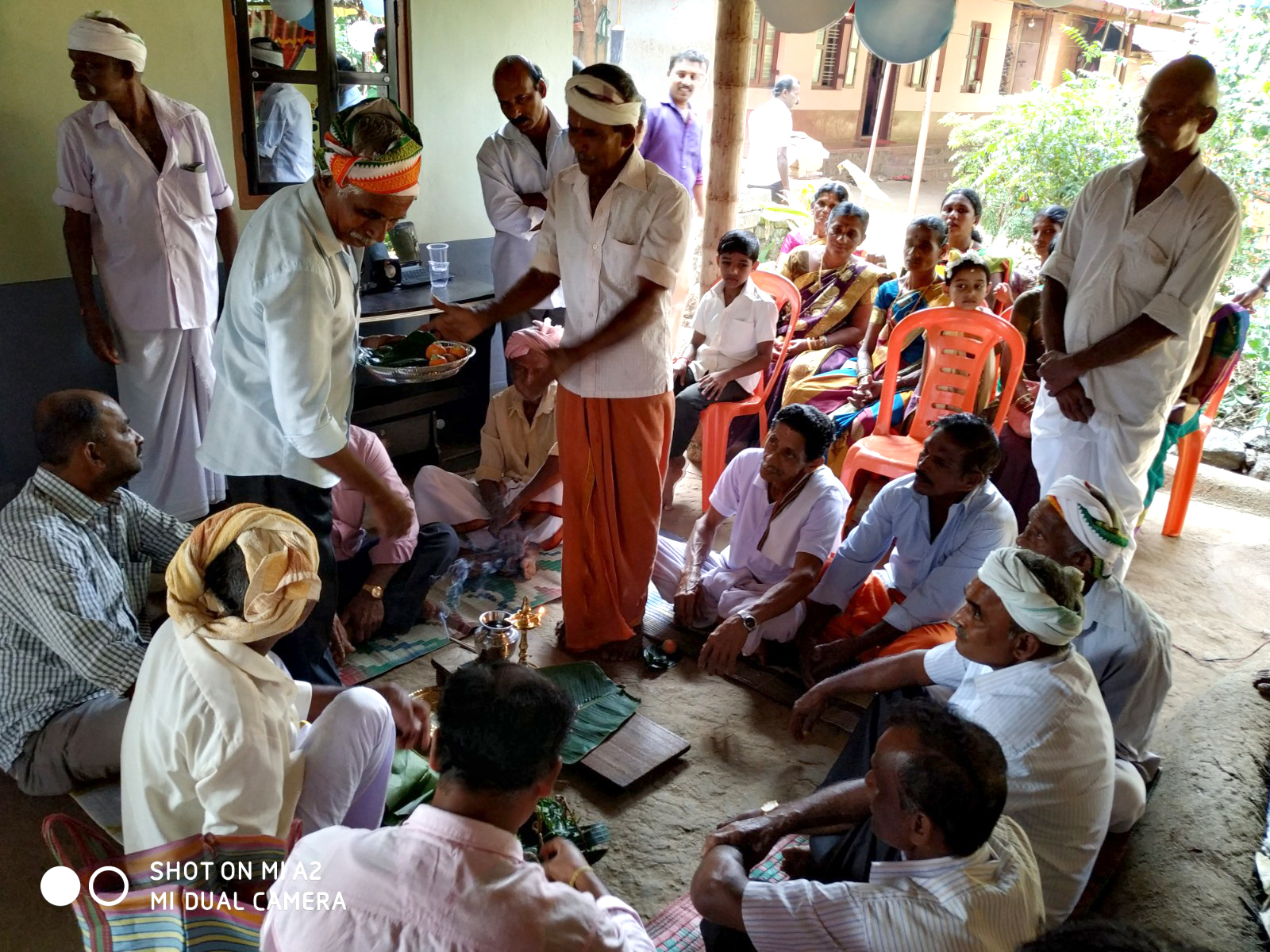 Gowda Community Marrage Program